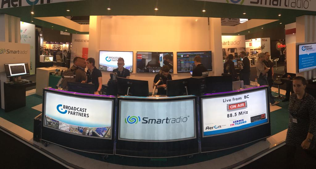 RADIO IBC POWERED BY KERMIS FM